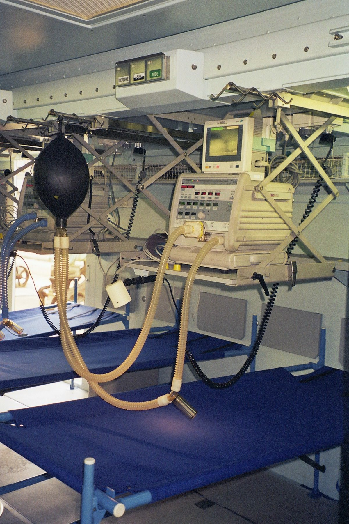 Nation/Defense days, Esplanade des Invalides, Paris, France, September 24-25, 2005